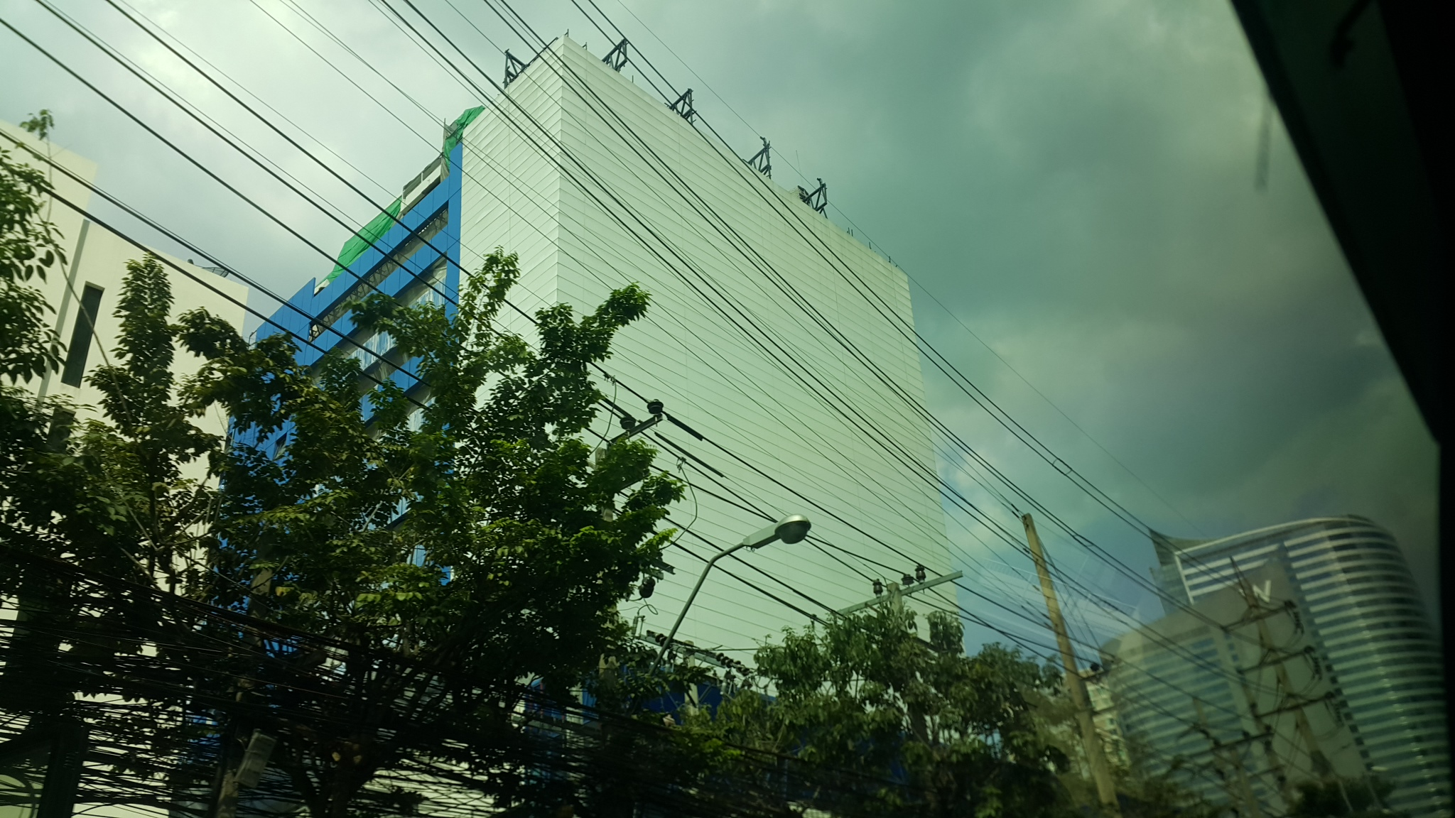 DoubleA Book Tower Bangkok Sathon